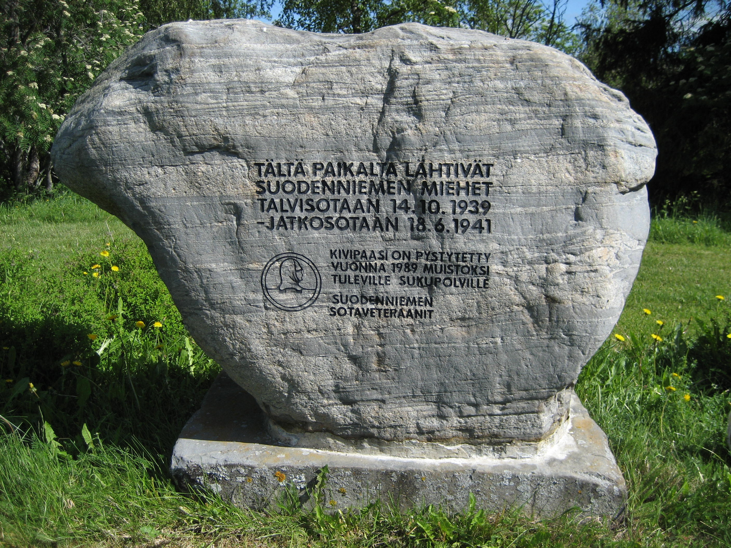 WWII Memorial in Suodenniemi (in Finland). The text on the memorial states: "From this site left the men of Suodenniemi to Winter War on October 14th 1939 and to Continuation War on June 18th 1941. This memorial was erected in 1989 as a reminder to future generations. War veterans of Suodenniemi."